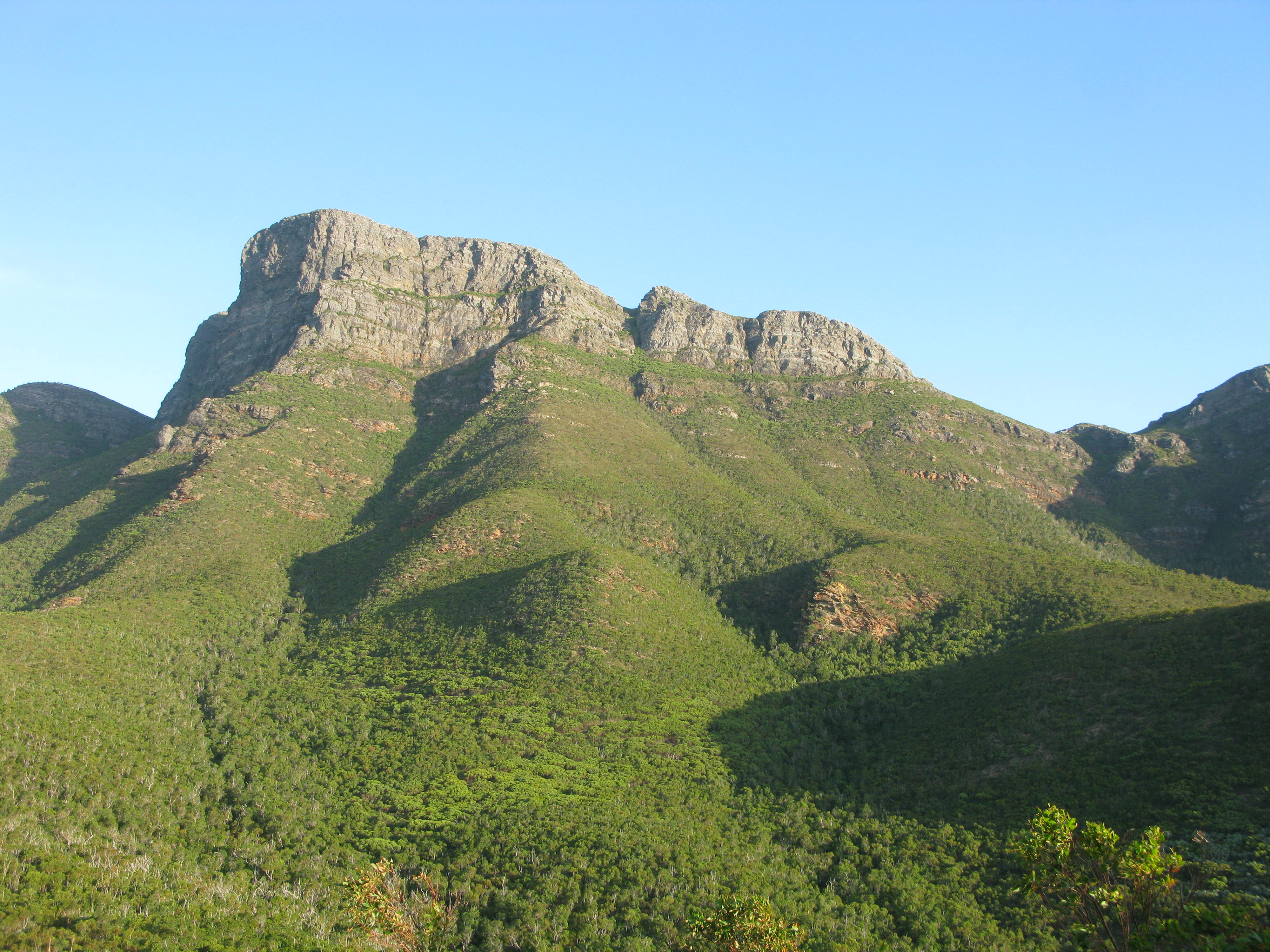 Author: Laurent MARSOL Source: made with my Canon camera on 11/02/2012 Comment: Bluff Knoll, Stirling Range National Park in February 2012.